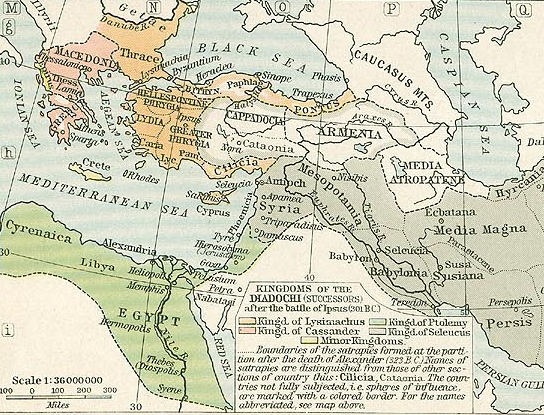 Map of the empires of the Diadochi 301 B.C., from William R. Shepherd's Historical Atlas (1911)